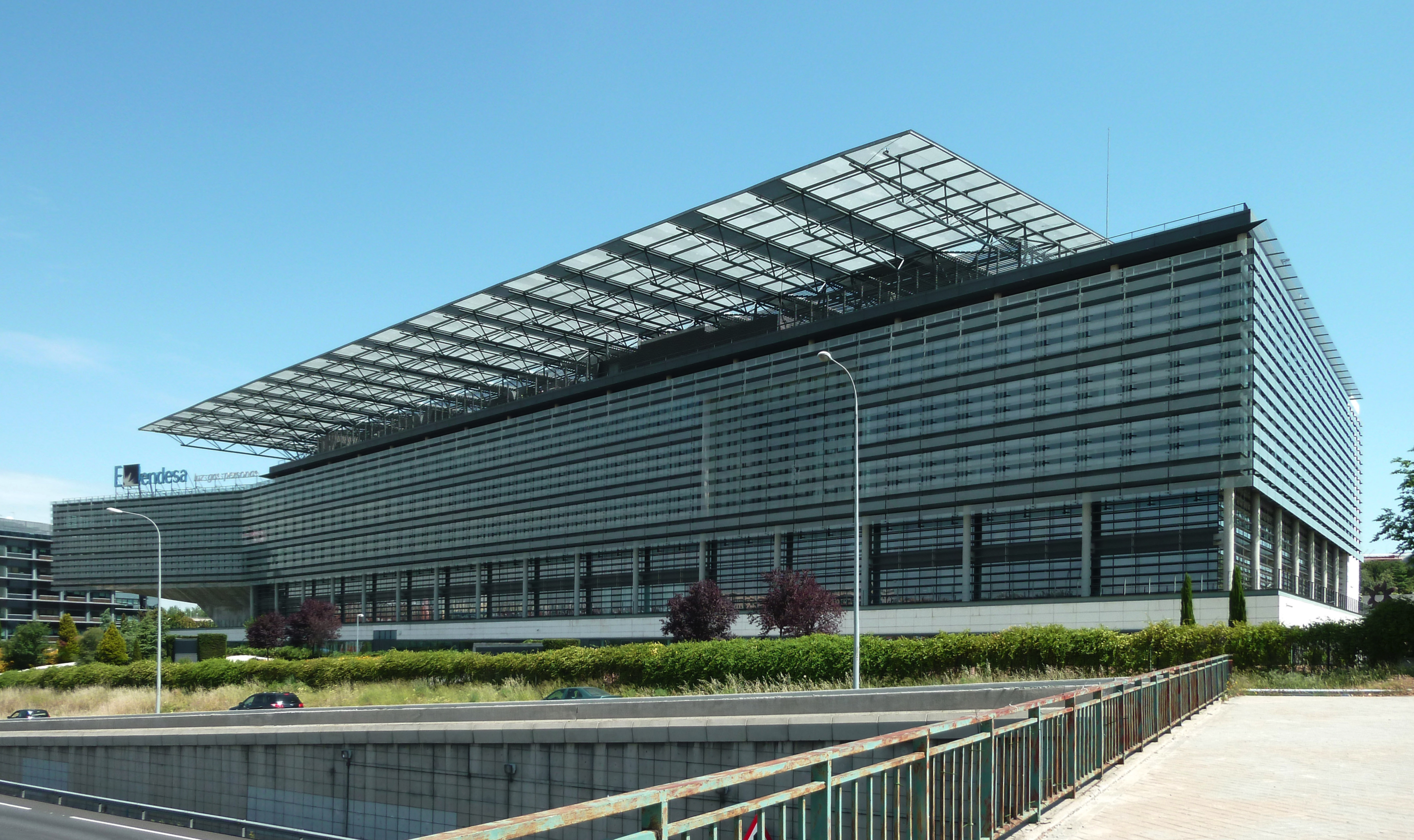 South-west façade of Endesa headquarters in Barajas district in Madrid (Spain).